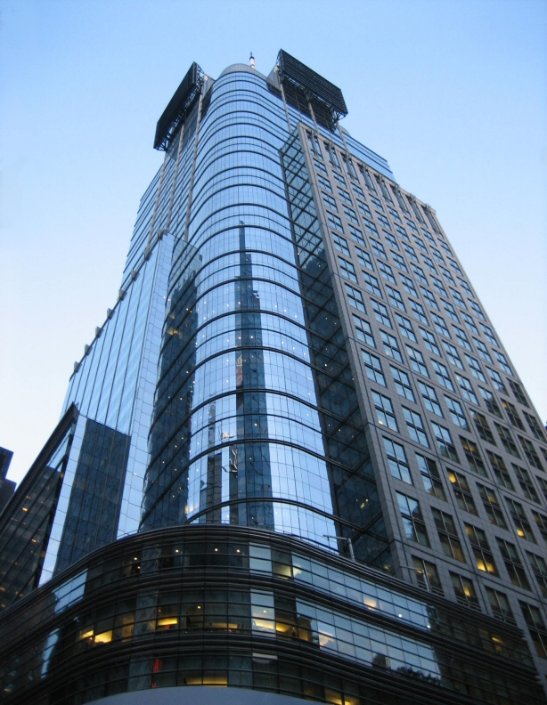 I am the author and I took it myself in January 2006.